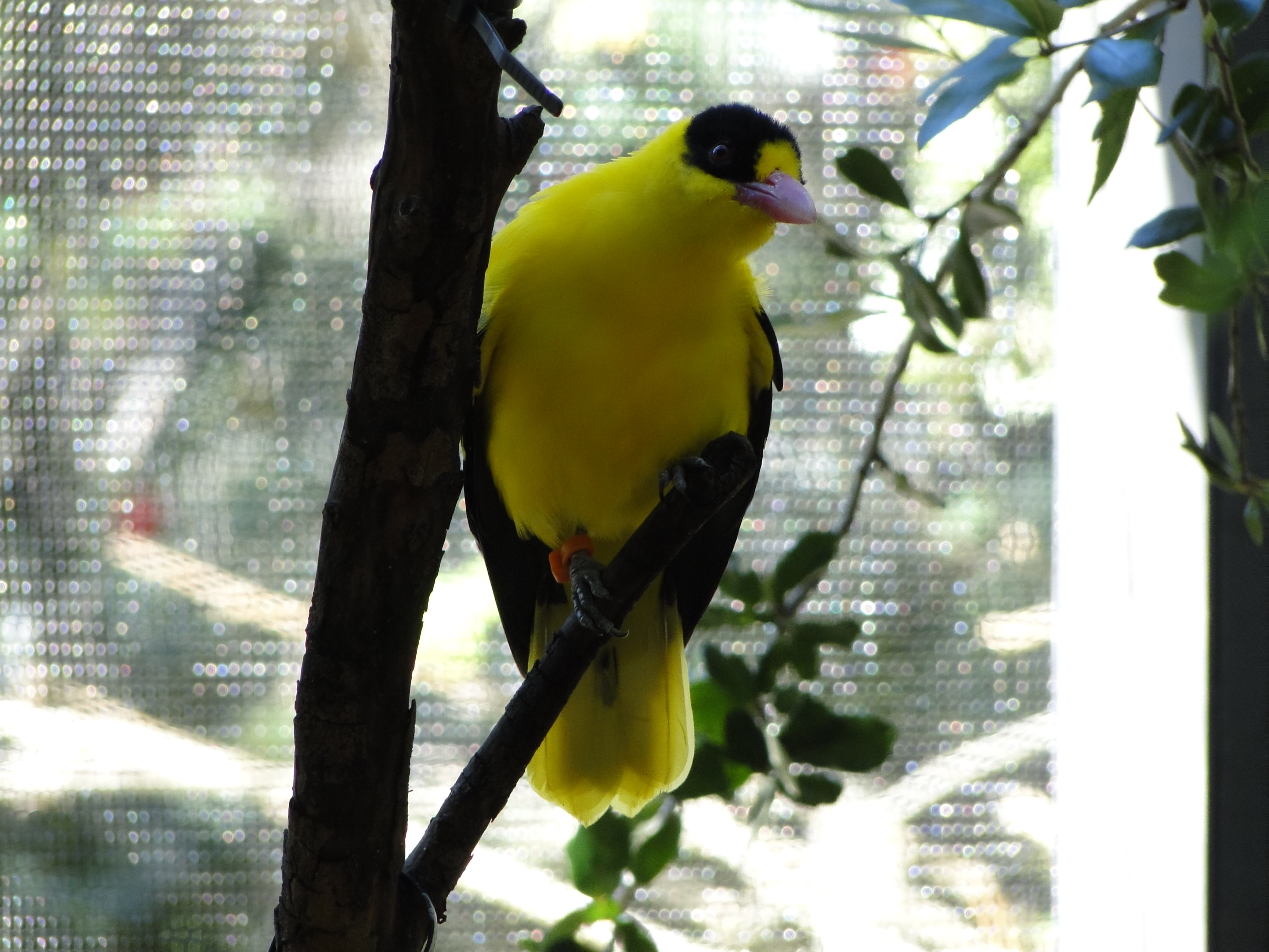 Black-naped Oriole at Palm Beach Zoo, Florida, USA.